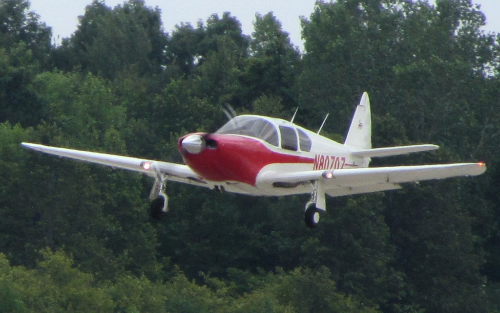 1946 Globe GC-1B Swift